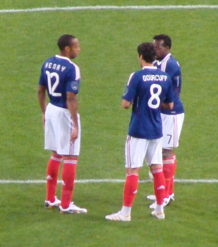 Thierry Henry, Yoann Gourcuff & Sidney Govou (France 2010)